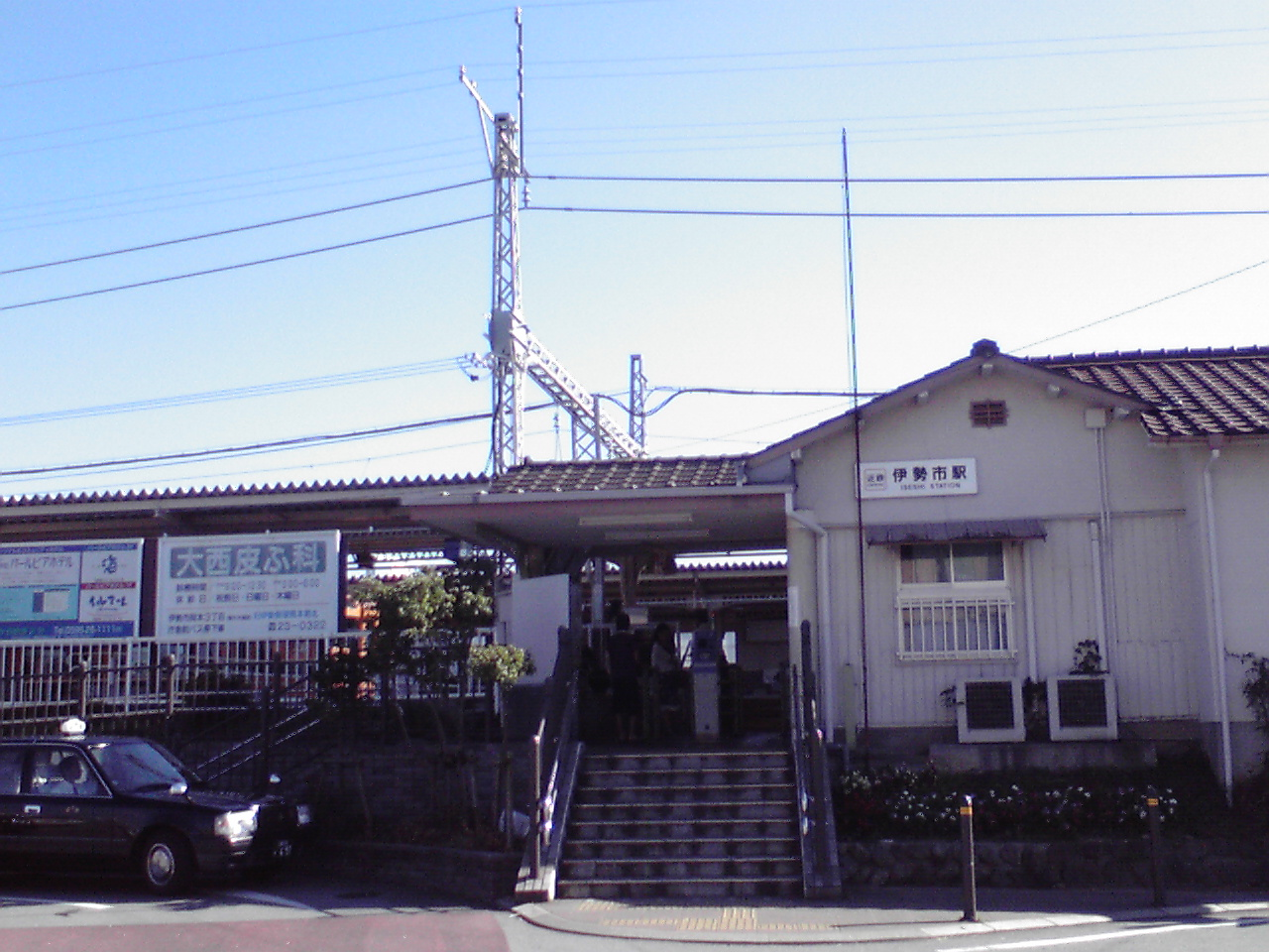 This is the kintetsu side of Ise-shi station in Ise, Mie.